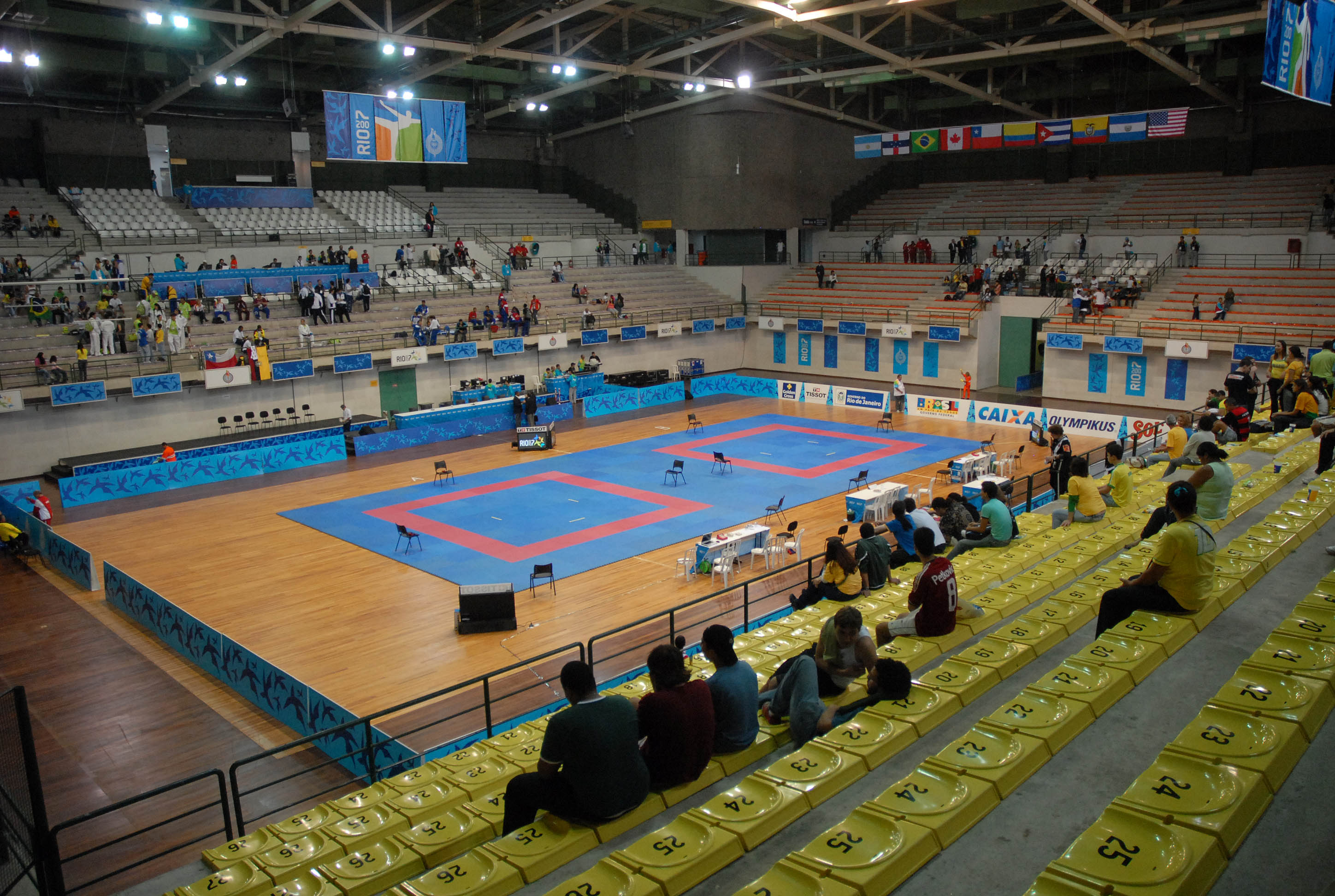 Miécimo da Silva Complex, venue of the Karate tournament of the 2007 Pan American Games in Rio de Janeiro